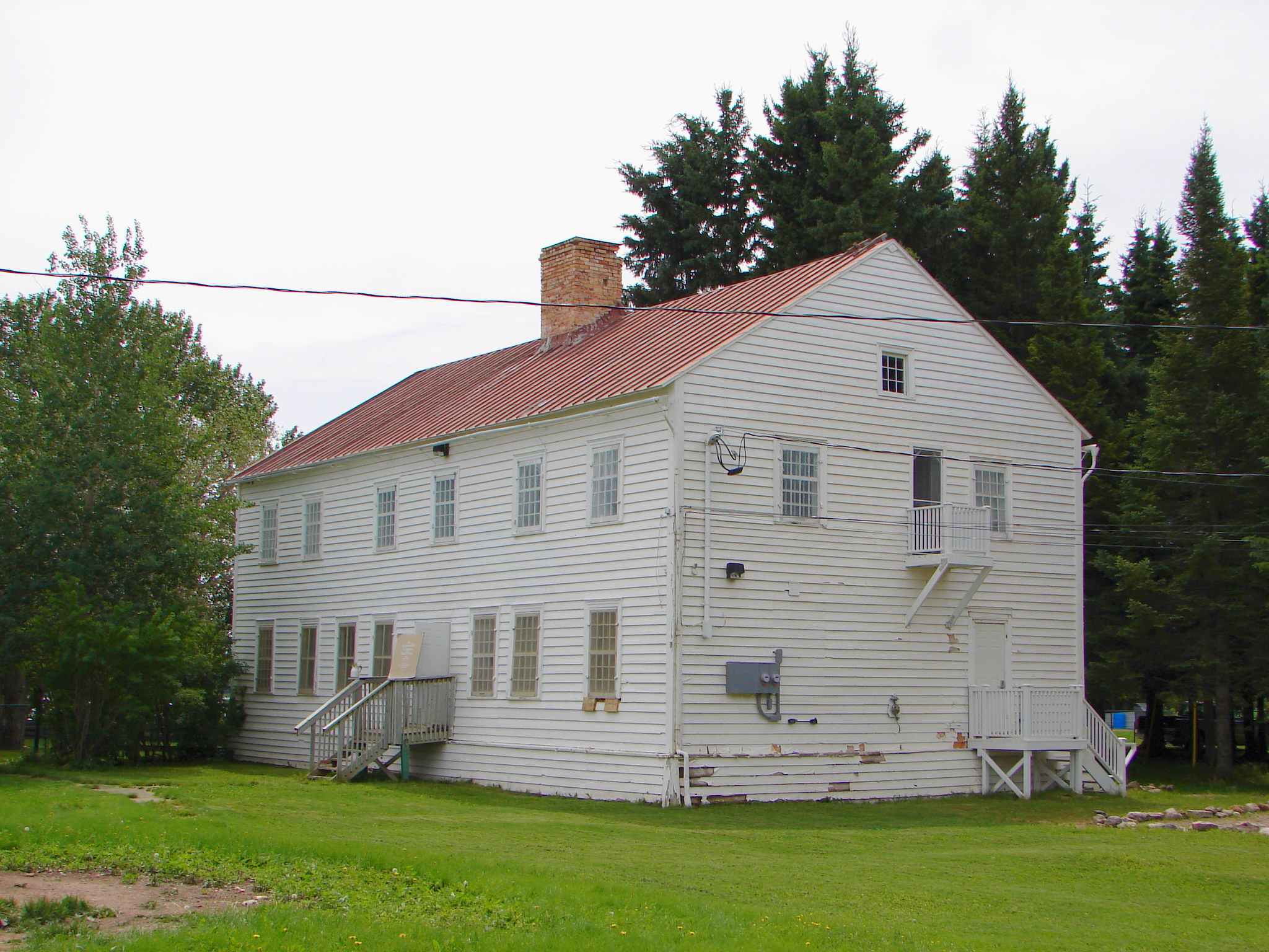 Former Hudson's Bay Company staff house in Moose Factory, Ontario, Canada, now a museum and tourism office